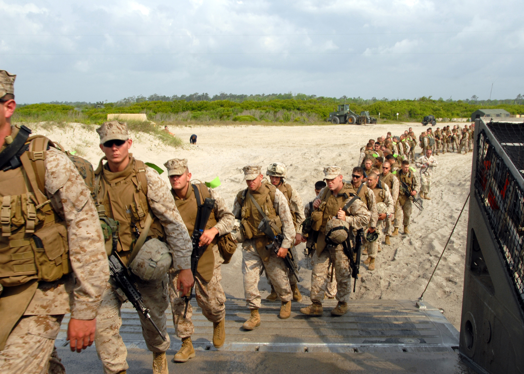 U.S. Marines assigned to the 26th Marine Expeditionary Unit embark a landing craft air cushion from Assault Craft Unit 4 at Camp Lejeune, N.C., for transport to the amphibious assault ship USS Iwo Jima (LHD 7) on May 8, 2008. The Iwo Jima is participating in the Iwo Jima Expeditionary Strike Group integration exercise.